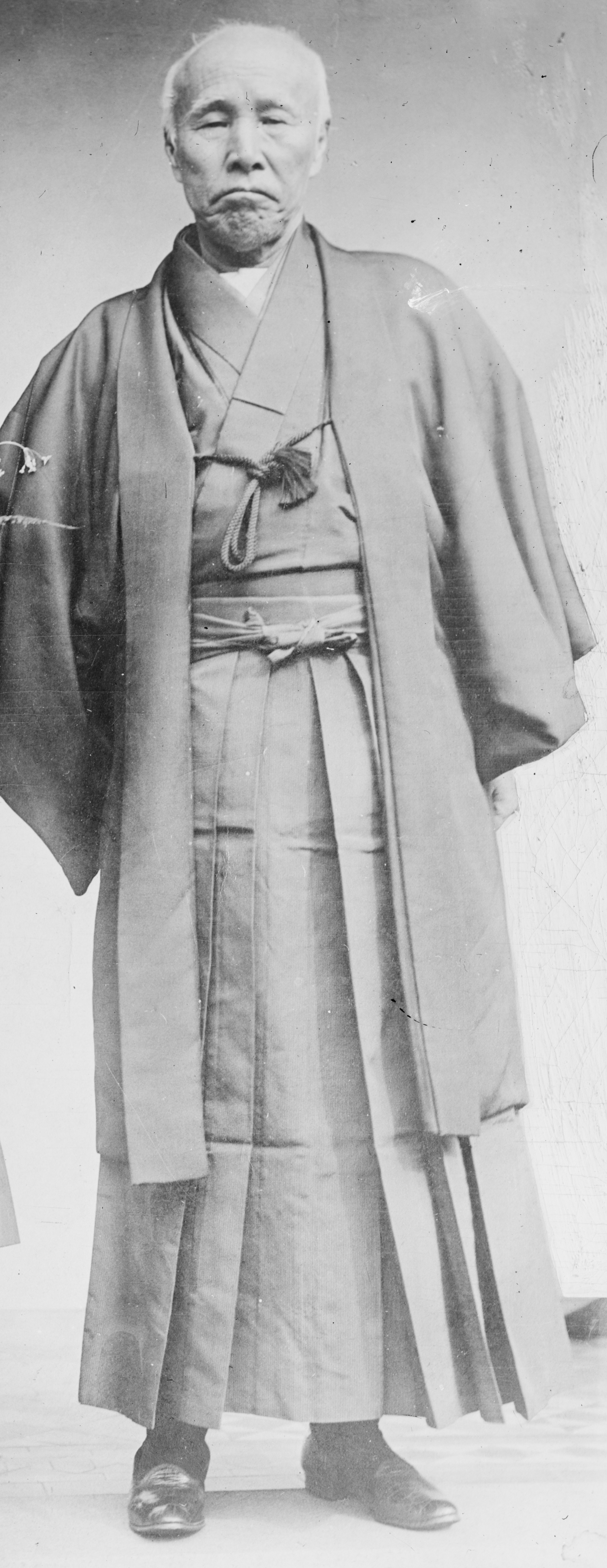 Title: Kath. Stinson, Marquis Okuma Abstract/medium: 1 negative : glass ; 5 x 7 in. or smaller.